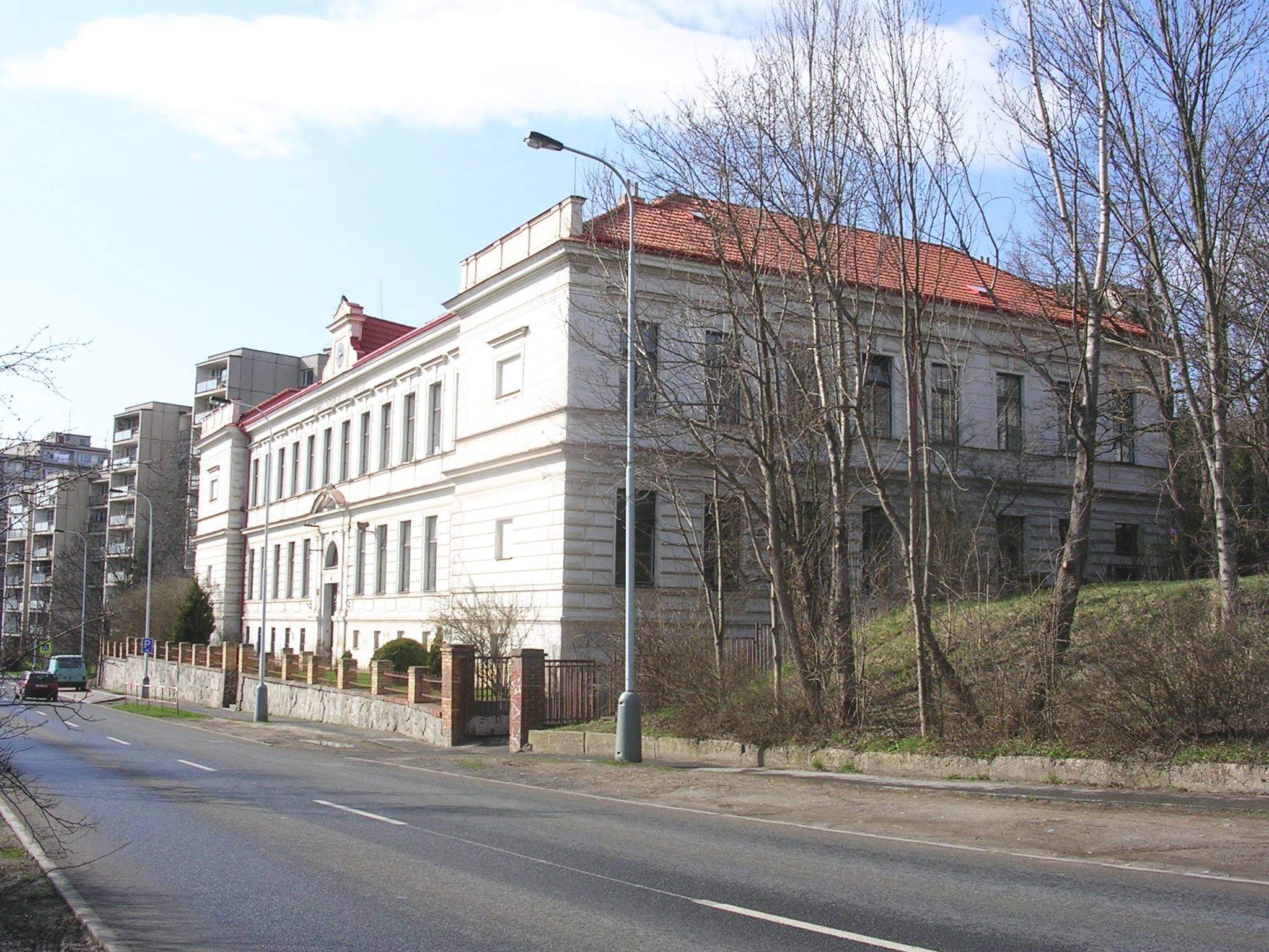 Záběhlice, Prague, the Czech Republic. The old Záběhlice school.